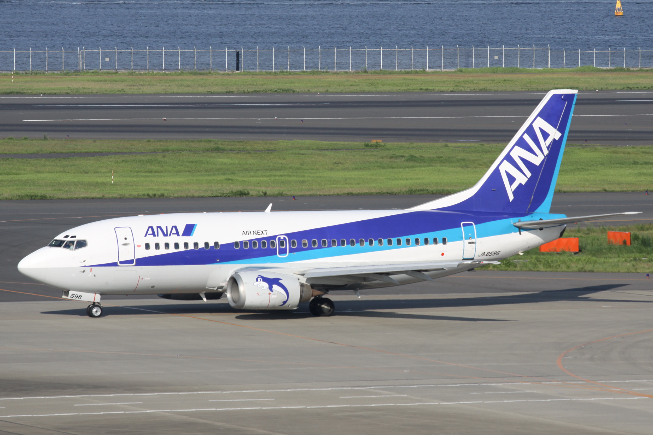 Air Next(NXA) Tokyo International Airport, Terminal 2